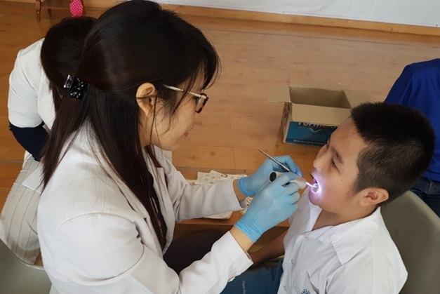 school